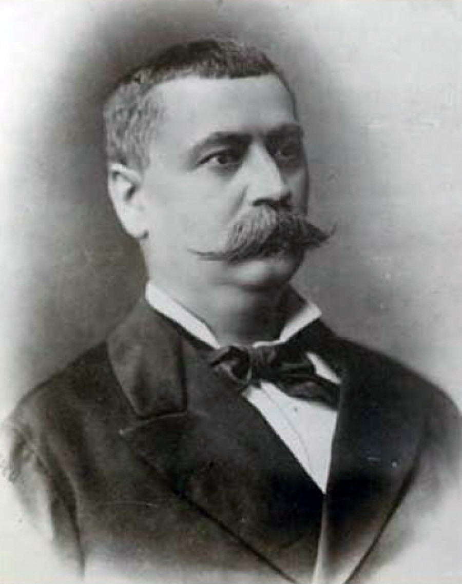 Ioan Cetățianu ( 16 iulie 1839 - 30 noiembrie 1898)